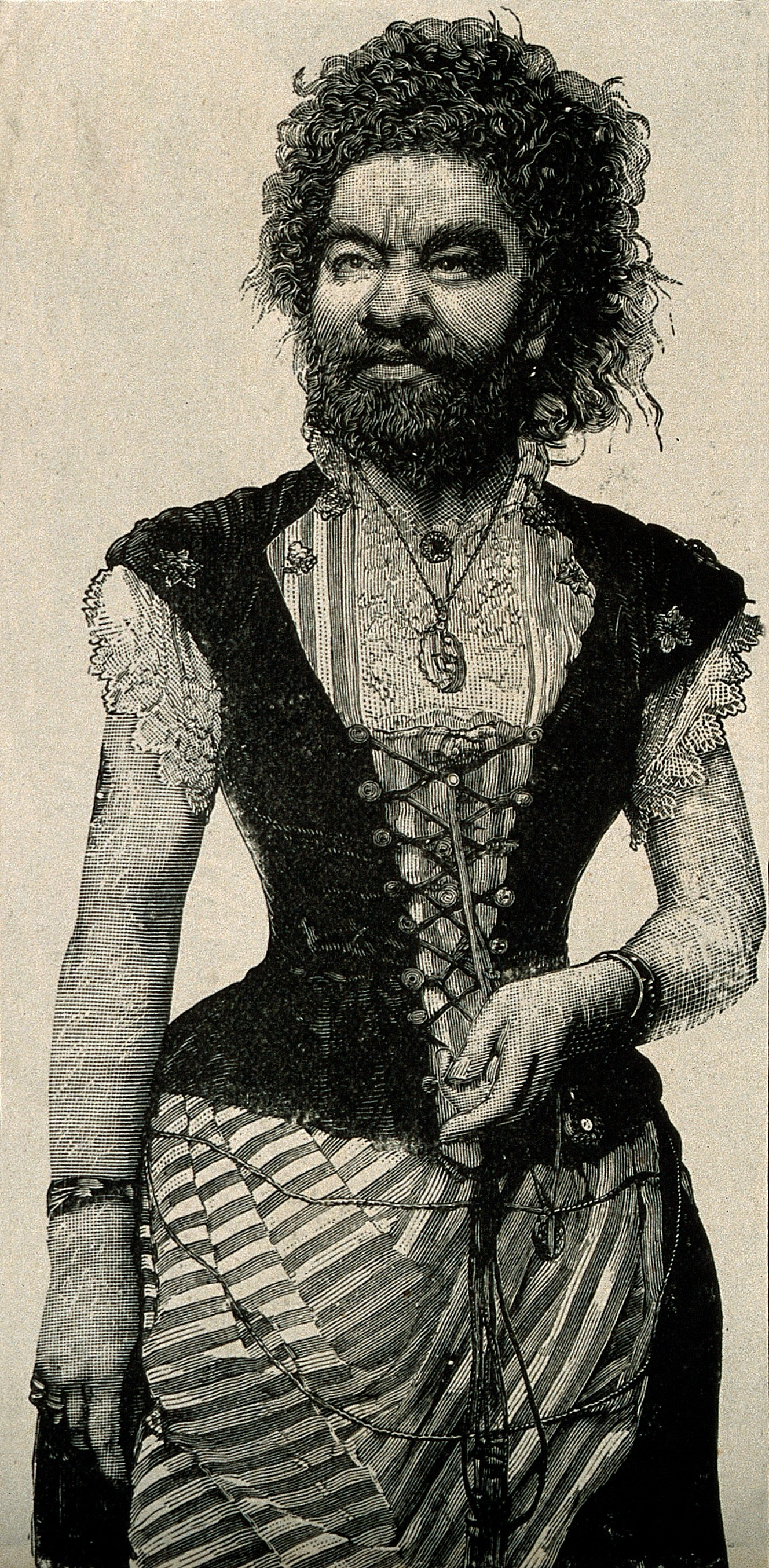 Marie Bartel, billed as "Senora Pastrana", was the second wife of Theodore Lent, the first being Julia Pastrana - both were bearded. Iconographic Collections Keywords: Hypertrichosis; portrait prints; pastrana, julia, d. 1860; Senora. Pastrana; wood engravings; Theodore. Lent